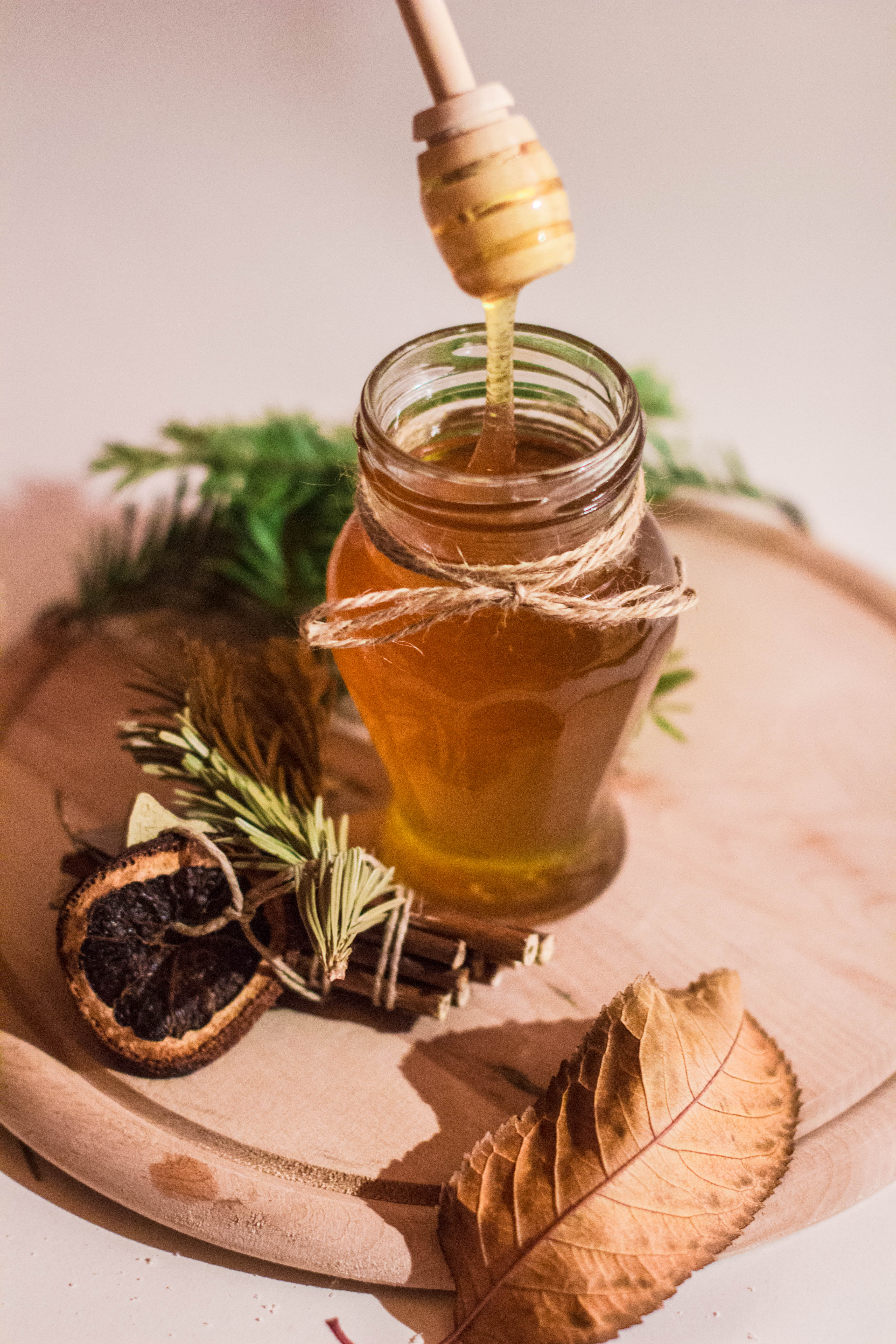 Forest honey